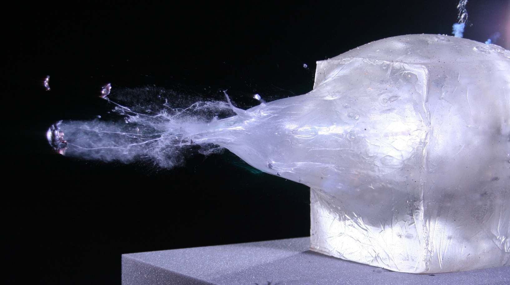 This photo demonstrates the terminal ballistic fragmentation of the Federal Power-Shok 100grn .243 projectile upon impact of a soft target such as the Clear Ballistics synthetic ordnance gelatin block. The image exposure was 1/2,000,000th of a second (0.0000005 sec), illuminated with a total of approximately 150,000,000 beam candela of light. The image was captured with a simple Canon Rebel XT. Note the multiple small and large projectile fragments. Image was captured on Tuesday August 12th by Kurt Groover and Nathan Boor of Aimed Research.